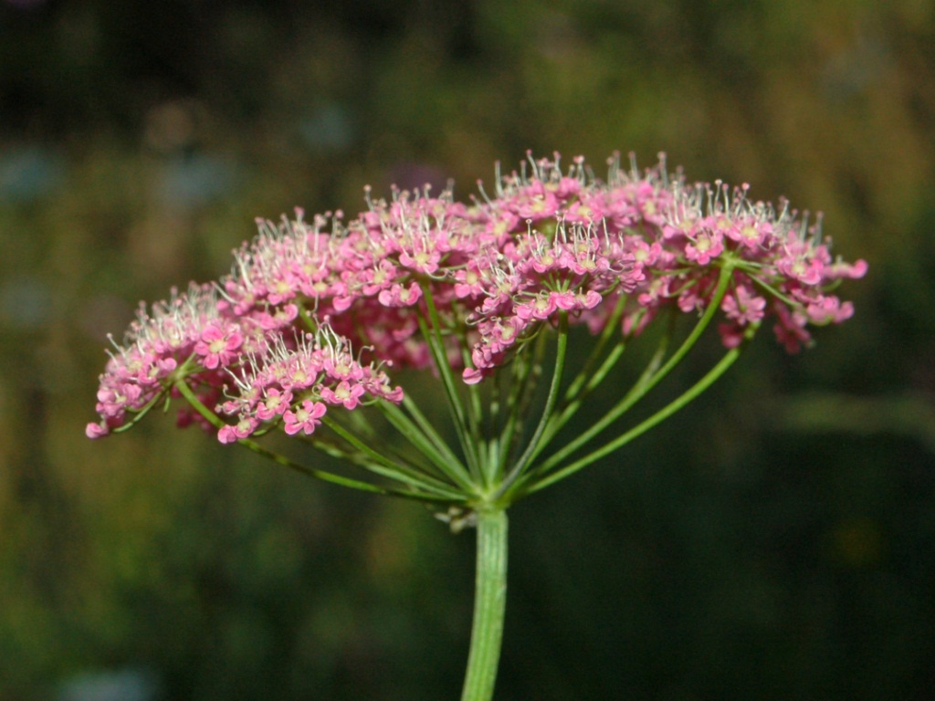 Pimpinella major, Valle Argentera, Torino, Italy